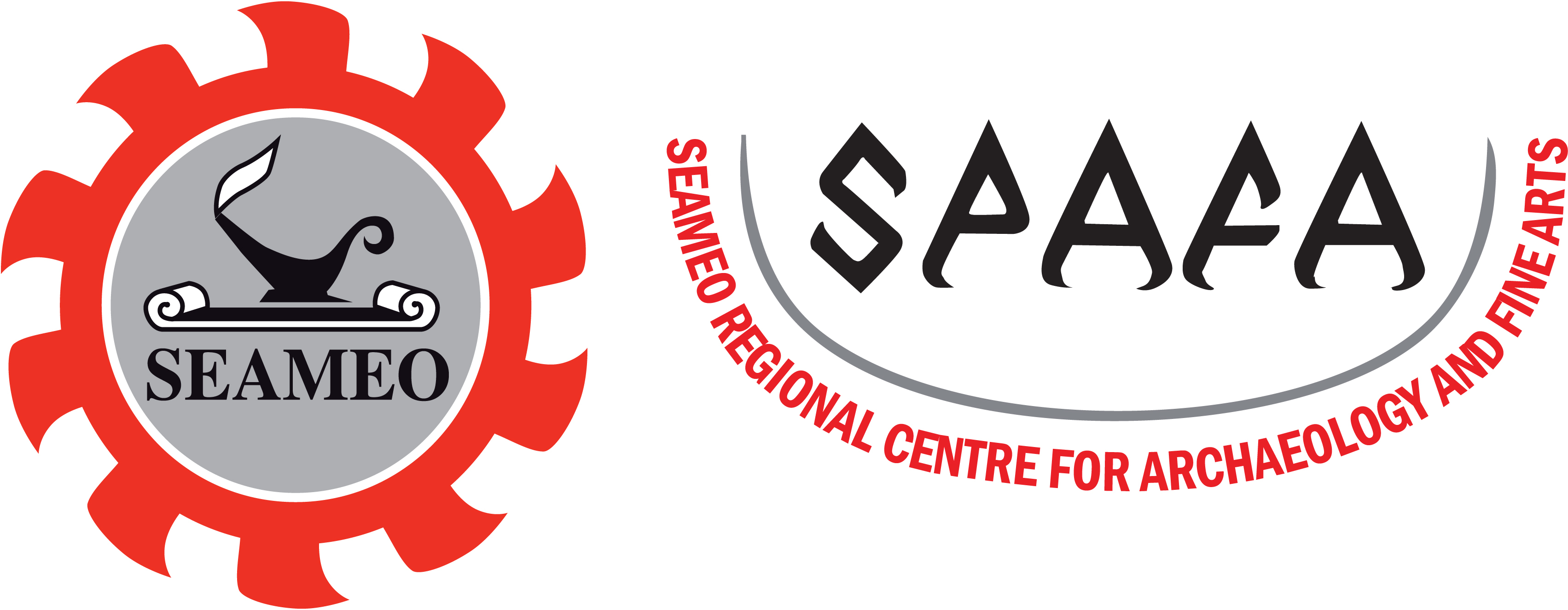 The SEAMEO SPAFA logo comprises both the SEAMEO logo (to the left) and SPAFA logo (to the right): The logos come together as one to show that the Regional Centre for Archaeology and Fine Arts (SPAFA) is under the aegis of the Southeast Asian Ministers of Education Organization (SEAMEO).